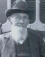 Portrait of Jacob Ackerman, first keeper of Tarrytown Light on the Hudson River. Cropped from an image showing him and another person